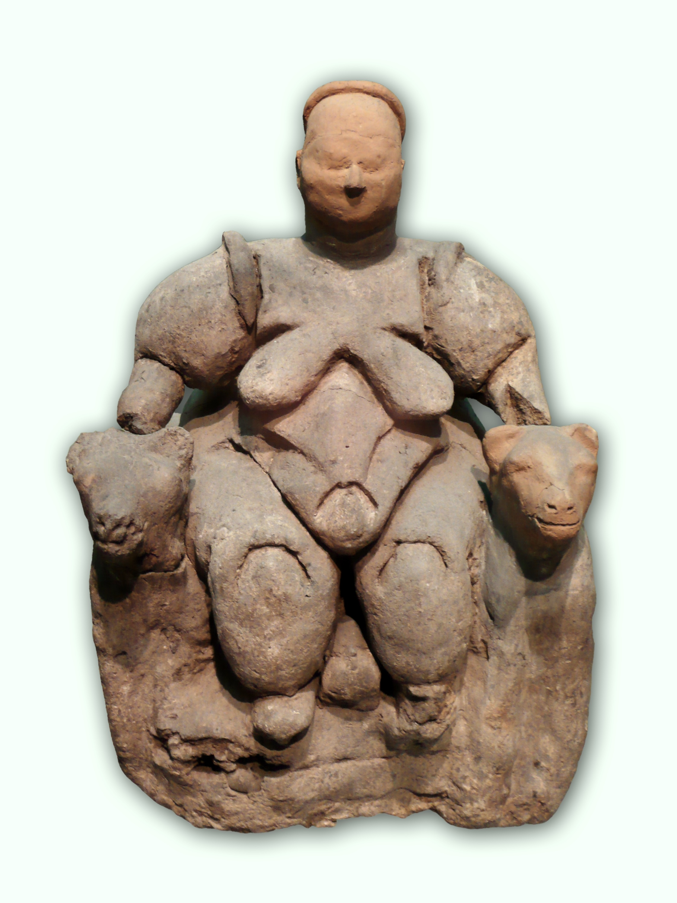 « Mother goddess from Çatalhöyük »